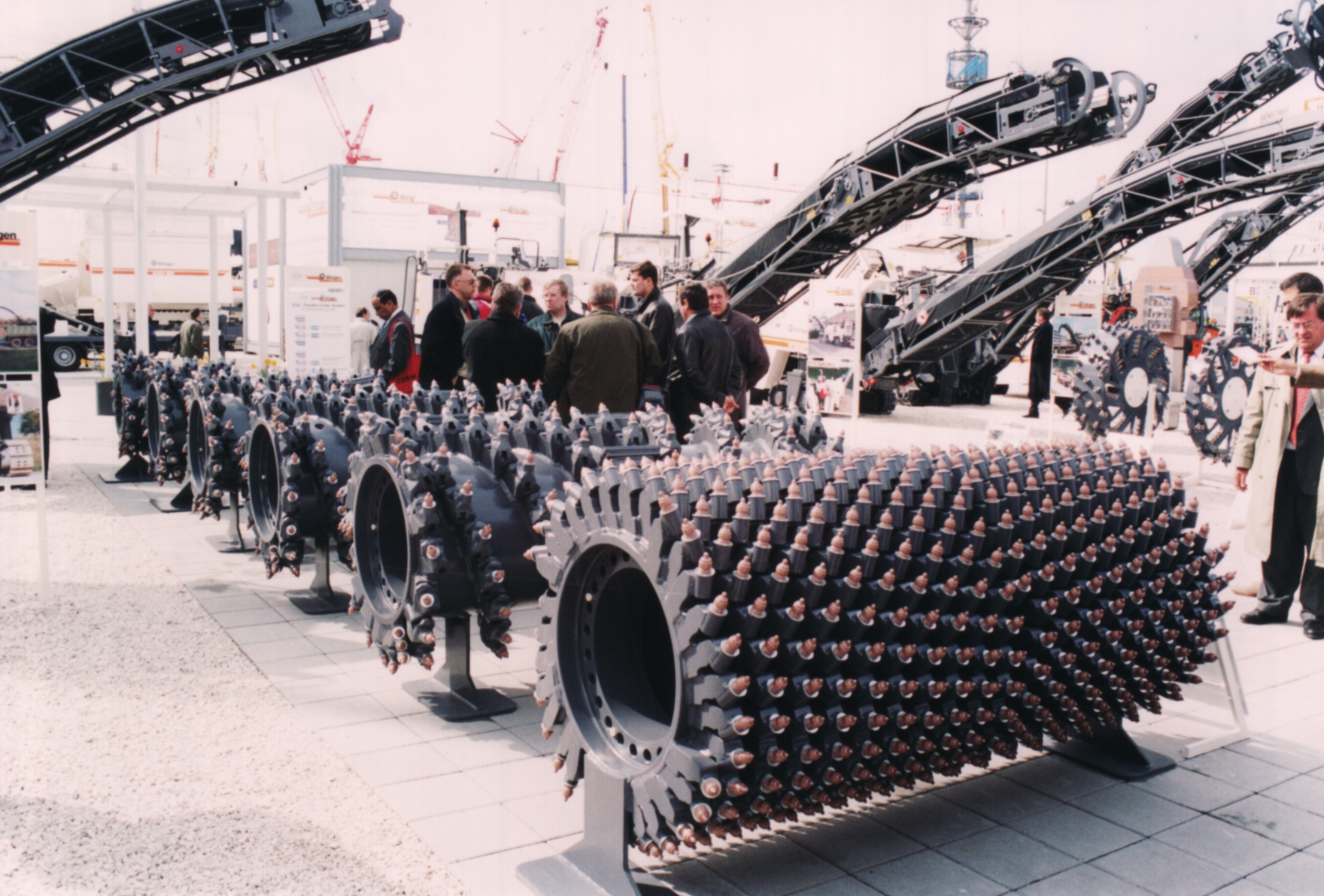 Tungsten Carbide tipped cutter drum of a road recycler